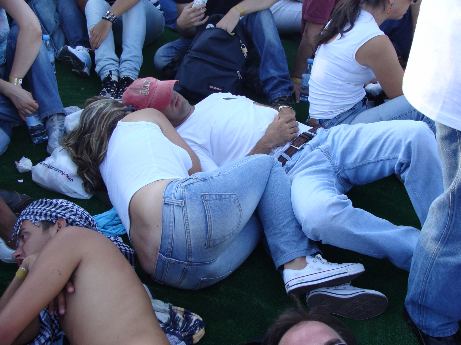 Madonna fandom